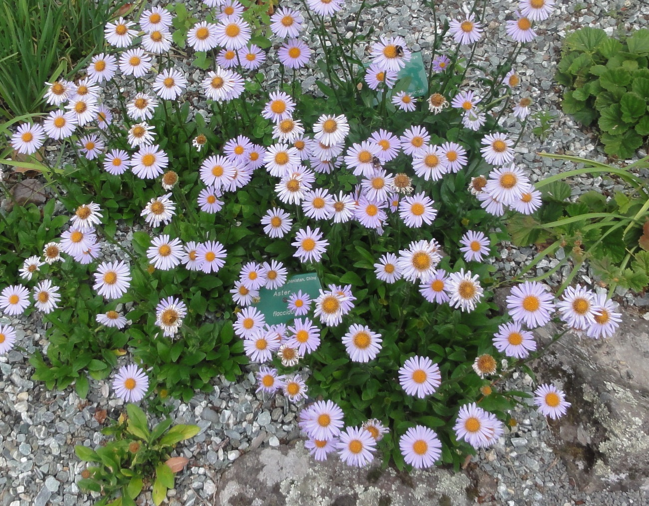 Aster flaccidus, Christchurch Botanic Gardens 2011